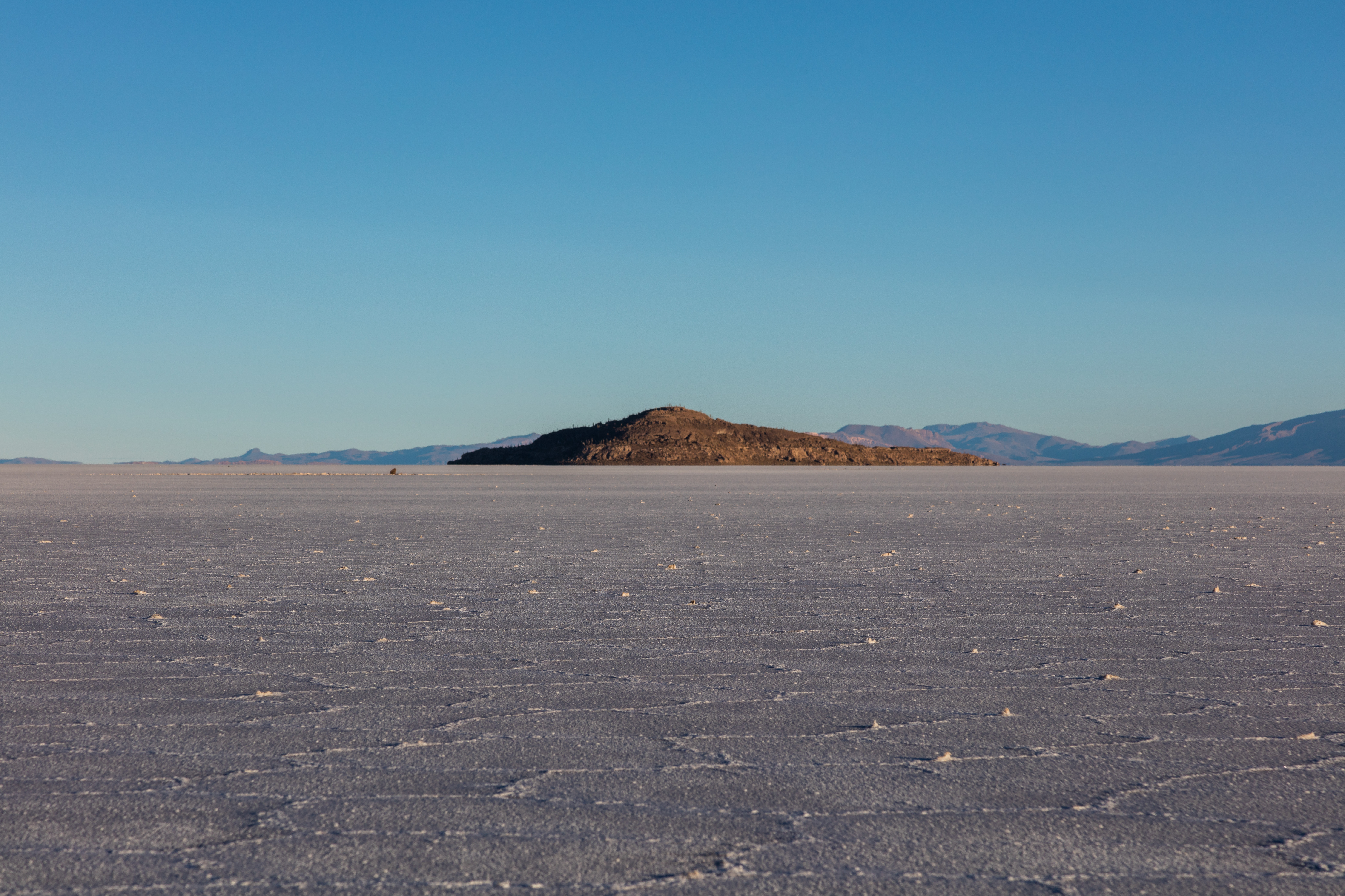 Salt flat of Uyuni, Bolivia